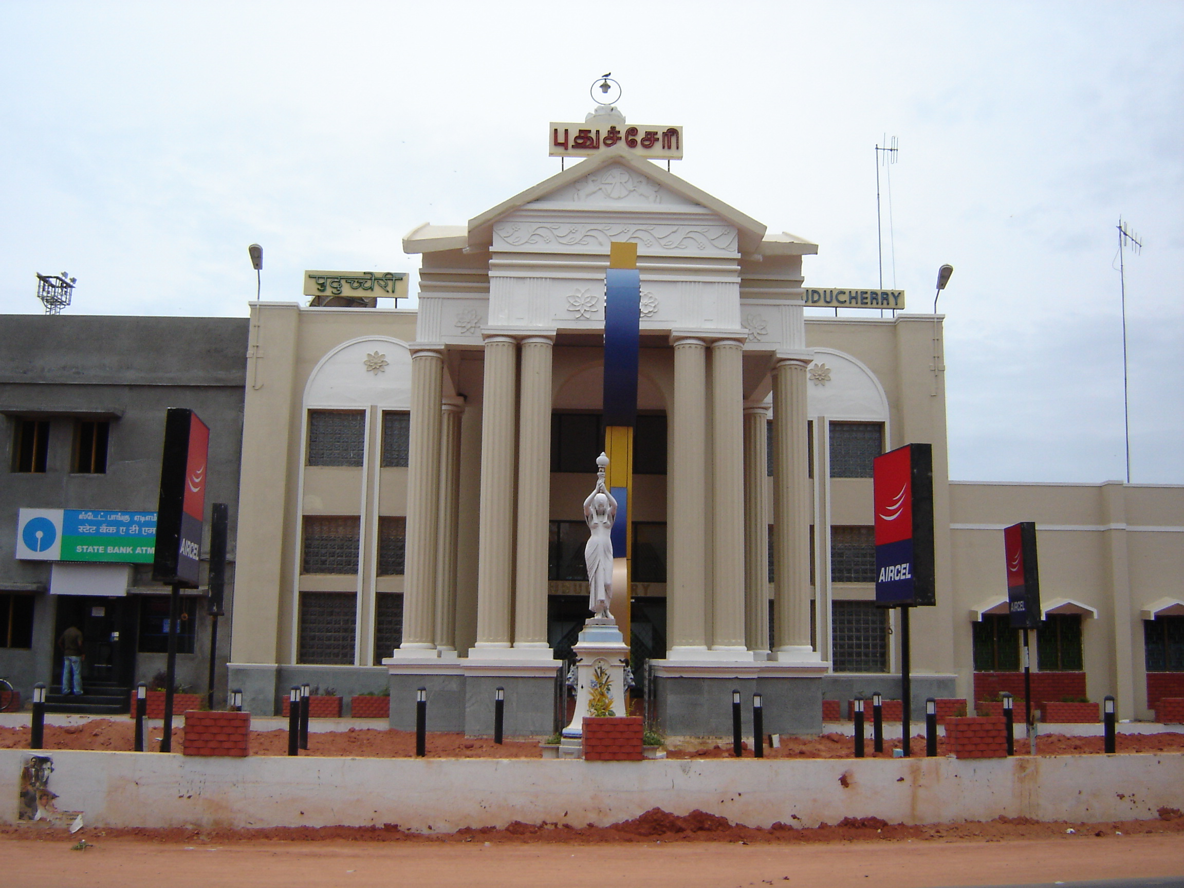 The train station of Puducherry, India.